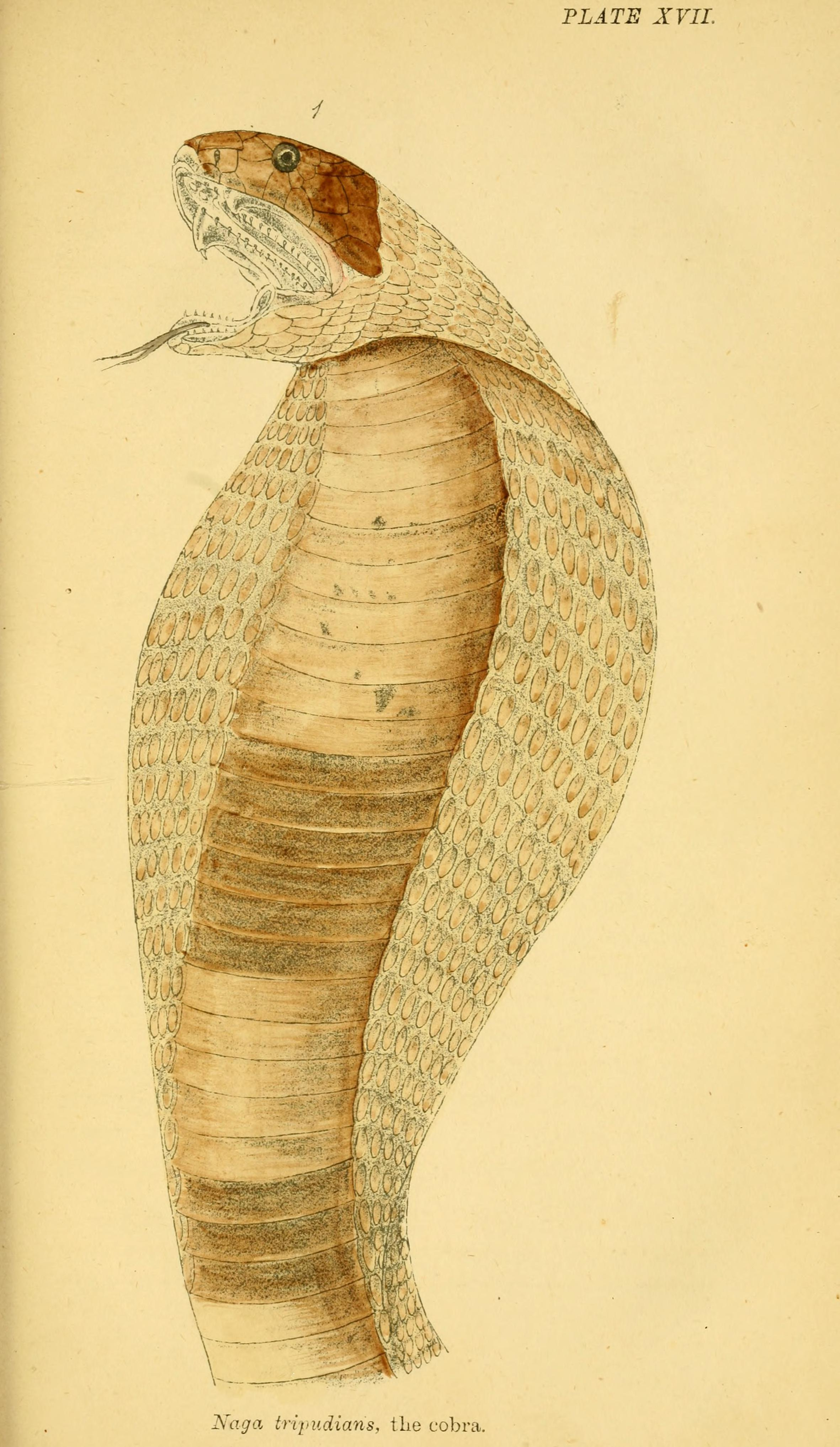 Indian snakes : an elementary treatise on ophiology with a descriptive catalogue of the snakes found in India and the adjoining countries / by Edward Nicholson.